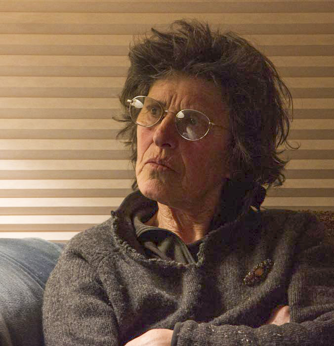 Martha Rockwell (born April 26, 1944) is a retired American cross-country skier. She competed at the 1972 Winter Olympics and the 1976 Winter Olympics.